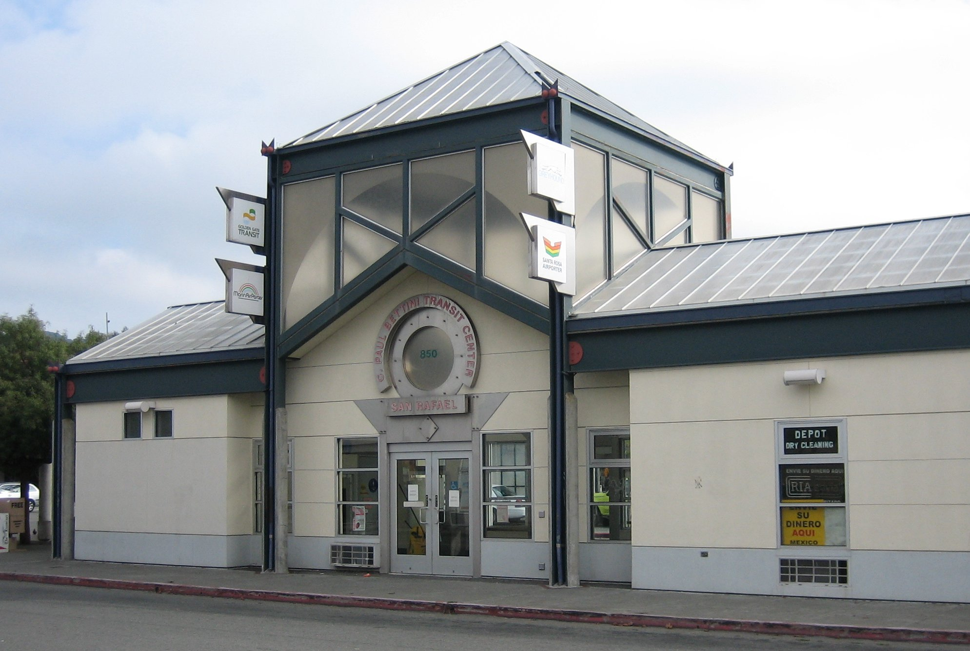 Photograph of the San Rafael Transit Center